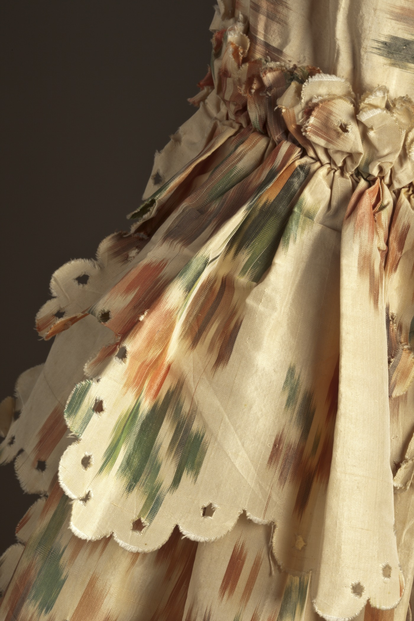 France, 1760s Costumes; principal attire (entire body) Chiné silk taffeta Gift of Mrs. Frederick Kingston (M.60.36.1) Costume and Textiles